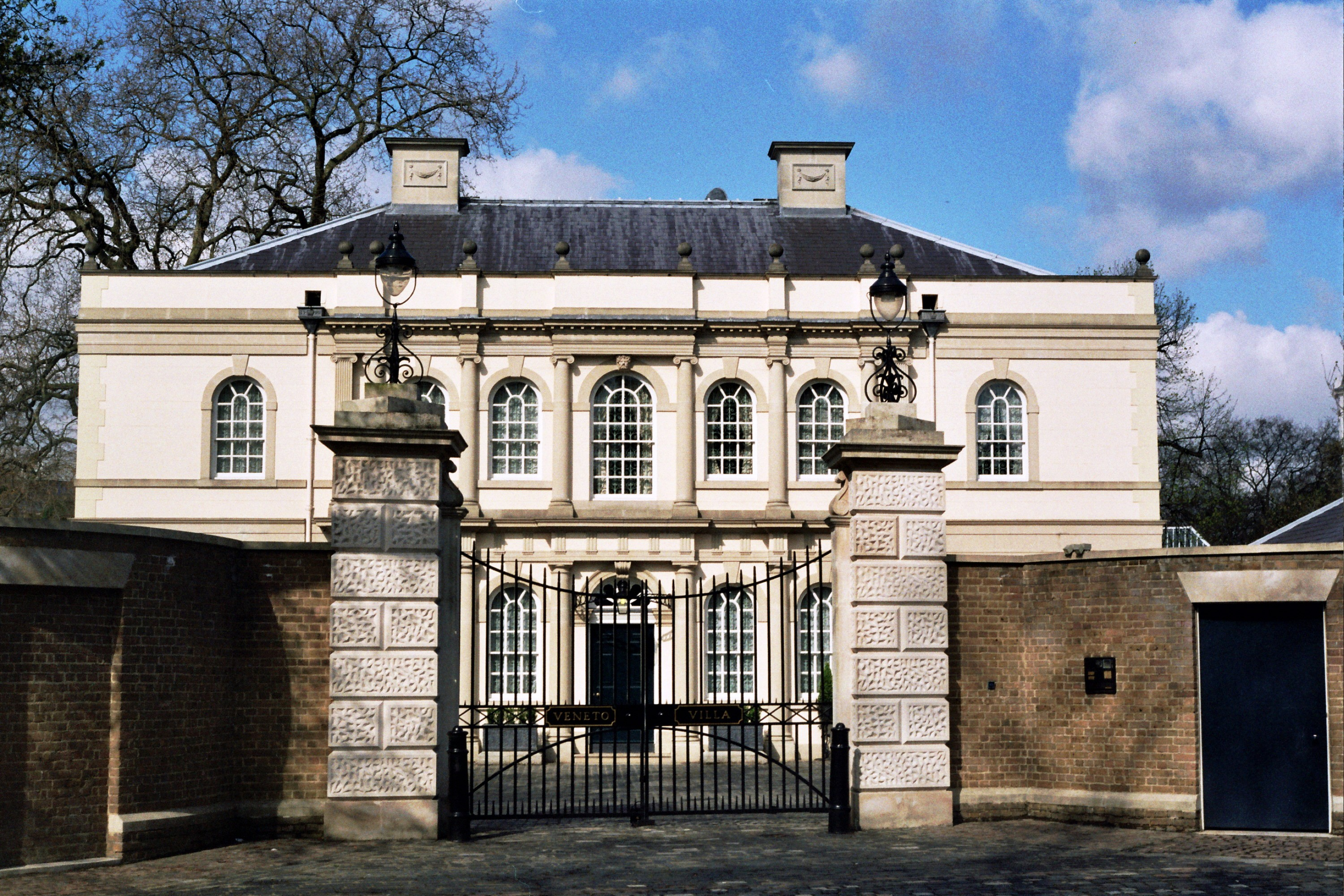 Quinlan Terry's Regent's Park villas are six large detached villas on the north-western edge of London's Regent's Park designed by the English Neo-Classical architect Quinlan Terry between 1988 and 2004. Terry designed each house in a different classical style, intended to be representative of the variety of classical architecture, naming them the Veneto Villa, Doric Villa, Corinthian Villa, Ionic Villa, Gothick Villa and the Regency Villa respectively.